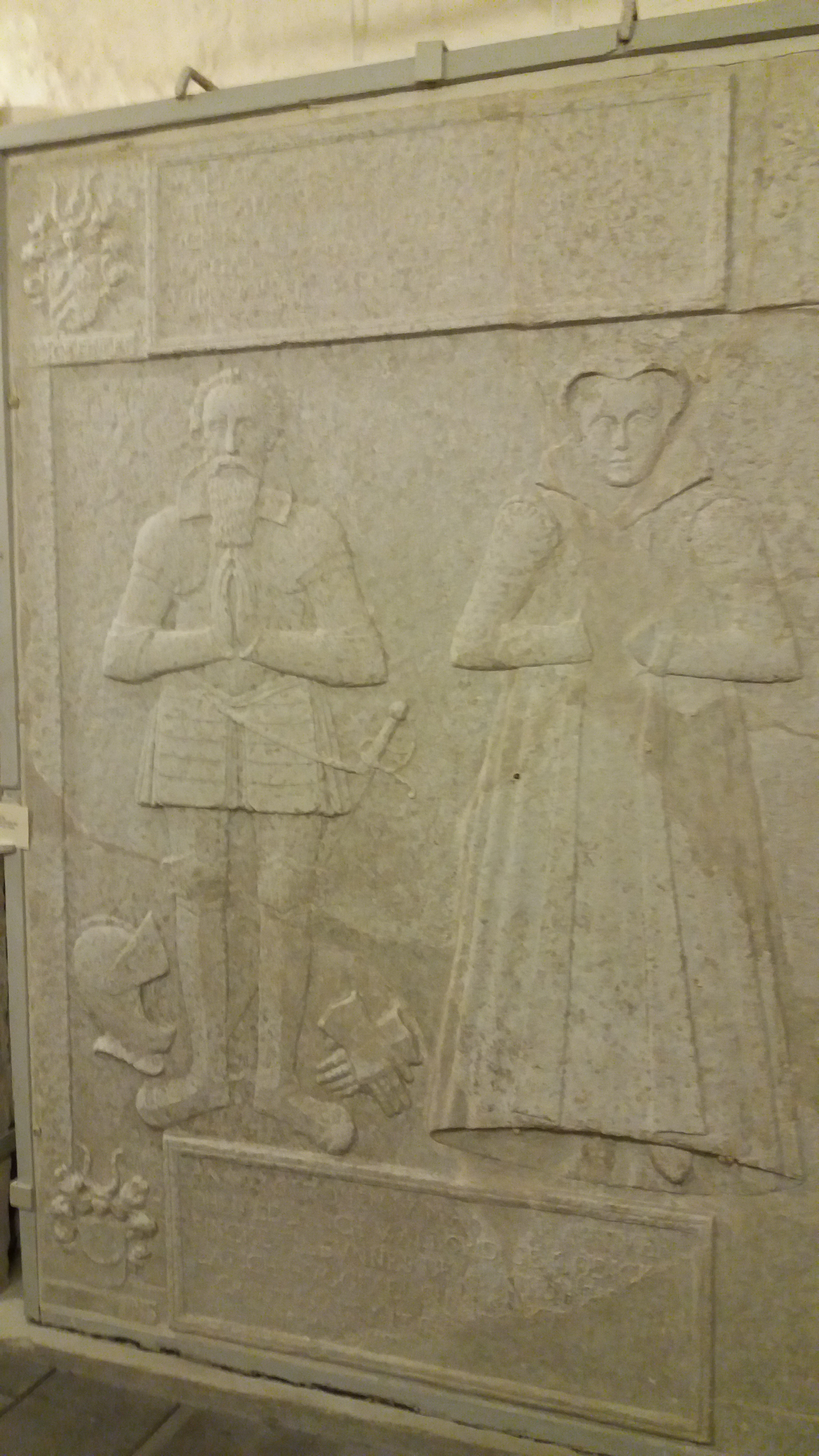 Gravestone of Gödik Fincke (1546-1617) and Elisabeth Boije in the St. Olof's Church, Ulvila, Finland.